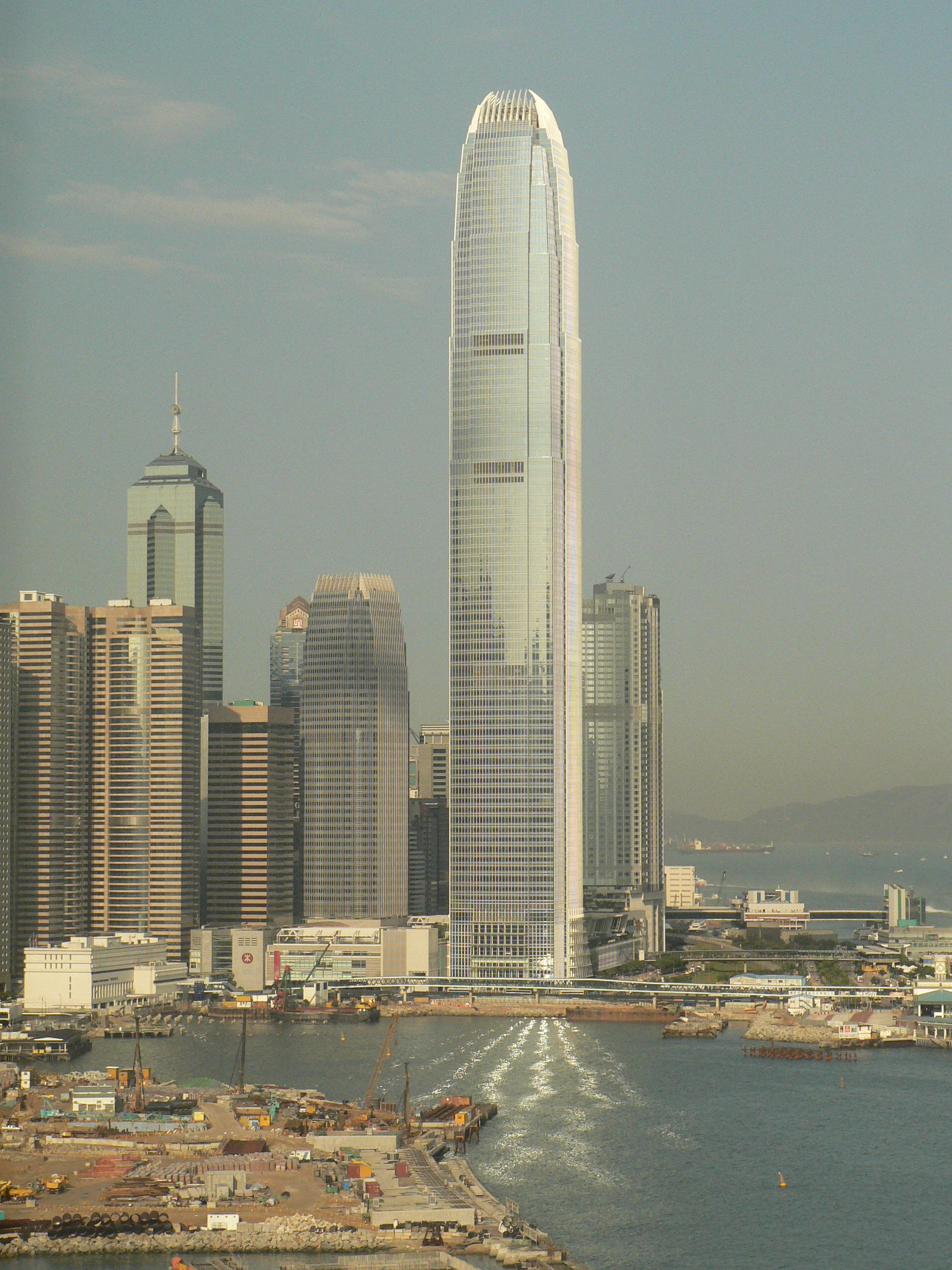 IFC in Central, Hong Kong. Reclamation project is undertaking in the foreground